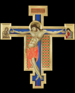 Photograph, with background removed, of the Cimabue replica crucifix at Fisher House, Cambridge.